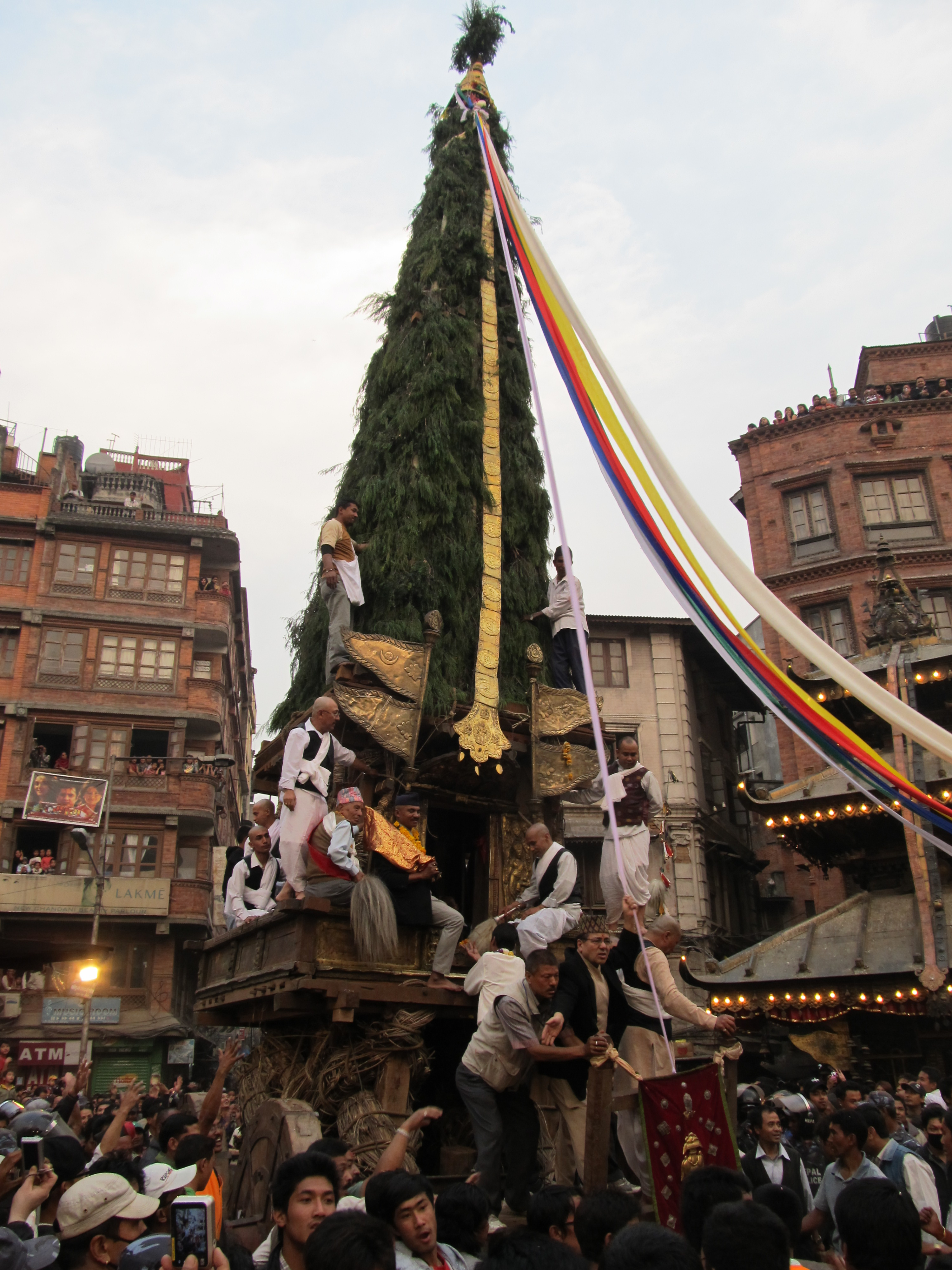 Kathmandu, Asan Tol - Seto Machhindranath wagon